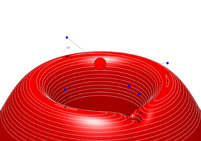 Effective potential Ueff and Lagrange points